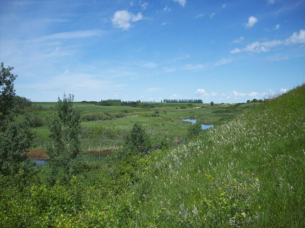 Echo Creek, arising immediately north of the town of Qu'Appelle, Saskatchewan and draining into the Qu'Appelle Valley at Fort Qu'Appelle